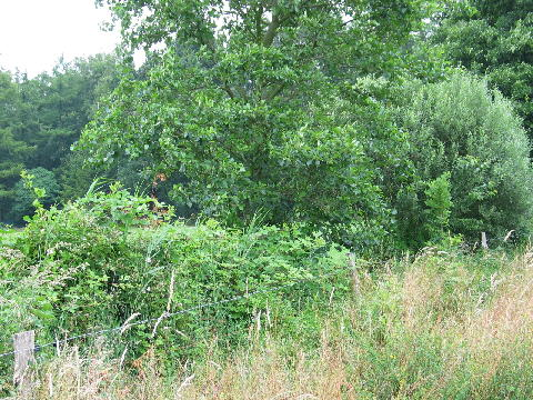 Vegetation in Het Speelhof nature reserve in Belgium.